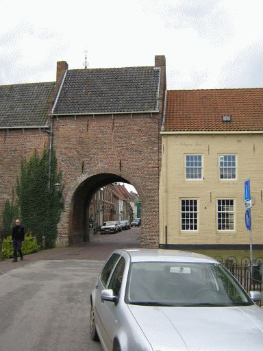 Citygate in Buren, Holland.